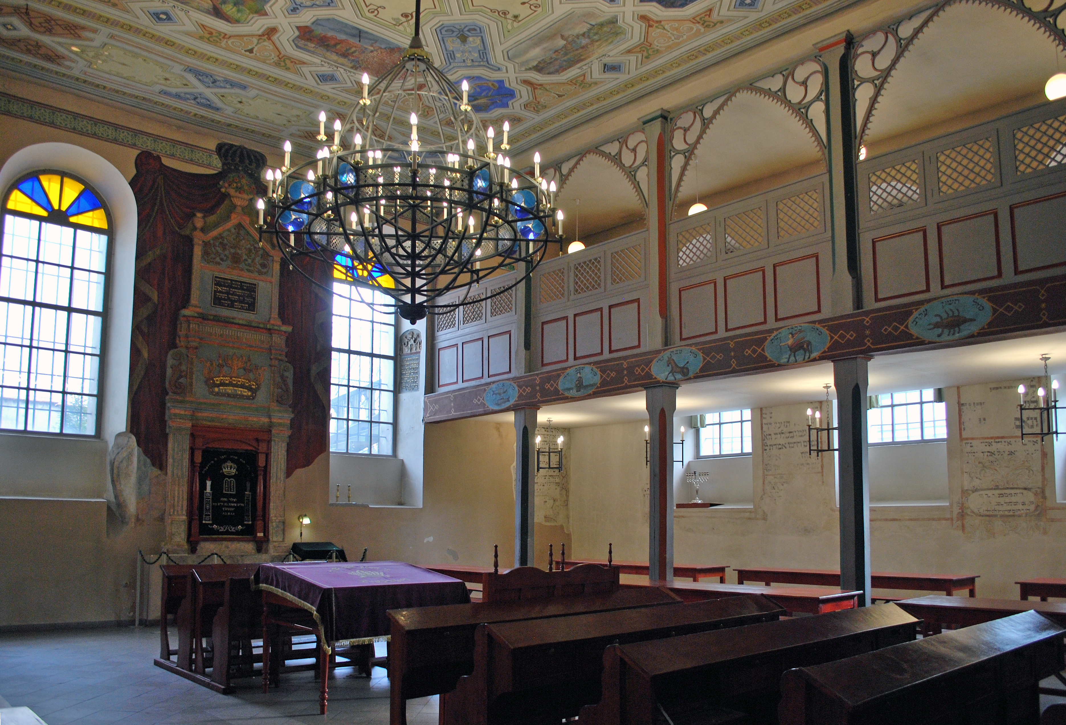 Kupa (Kasa) Synagogue, interior E, 27 Miodowa street, Kazimierz, Kraków, Poland